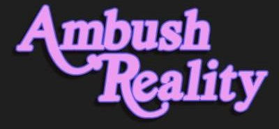 Logo for label Ambush Reality, owned by British band Enter Shikari